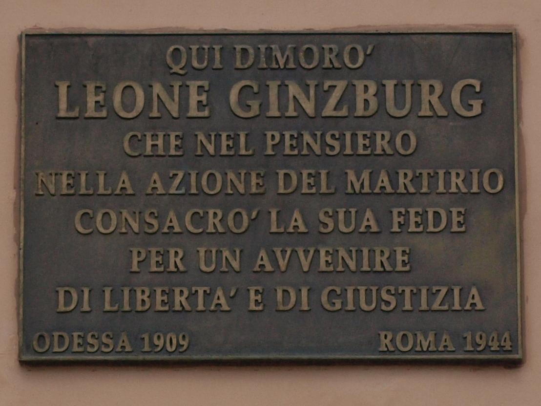 Plaque on house in Pizzoli near L'Aquila, Italy, where Leone Ginzburg lived, compelled in an internal exile by the fascism (a punishment known in Italy as confino). The inscription states: «Here dwelt / Leone Ginzburg / who in the thought / in the action of the martyrdom / devoted his belief / in a future / of Liberty and Justice / Odessa, 1909 - Rome 1944».